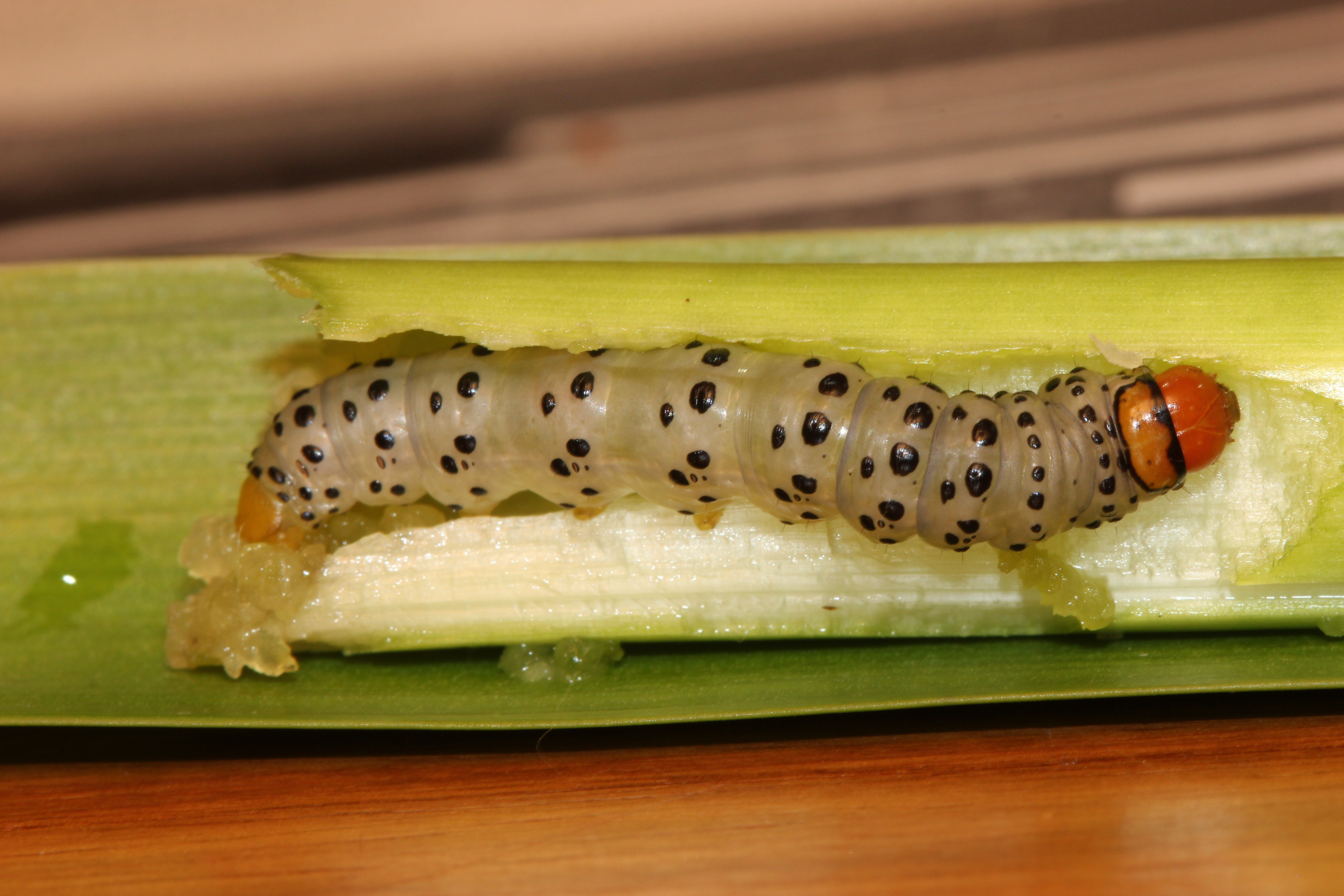 Neuranethes spodopterodes Noctuidae. Agapanthus borer. Larva. Dorsal aspect